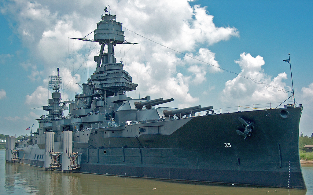 USS Texas August 2005